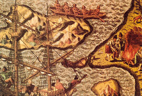 An old illustration from the XVI (1557)